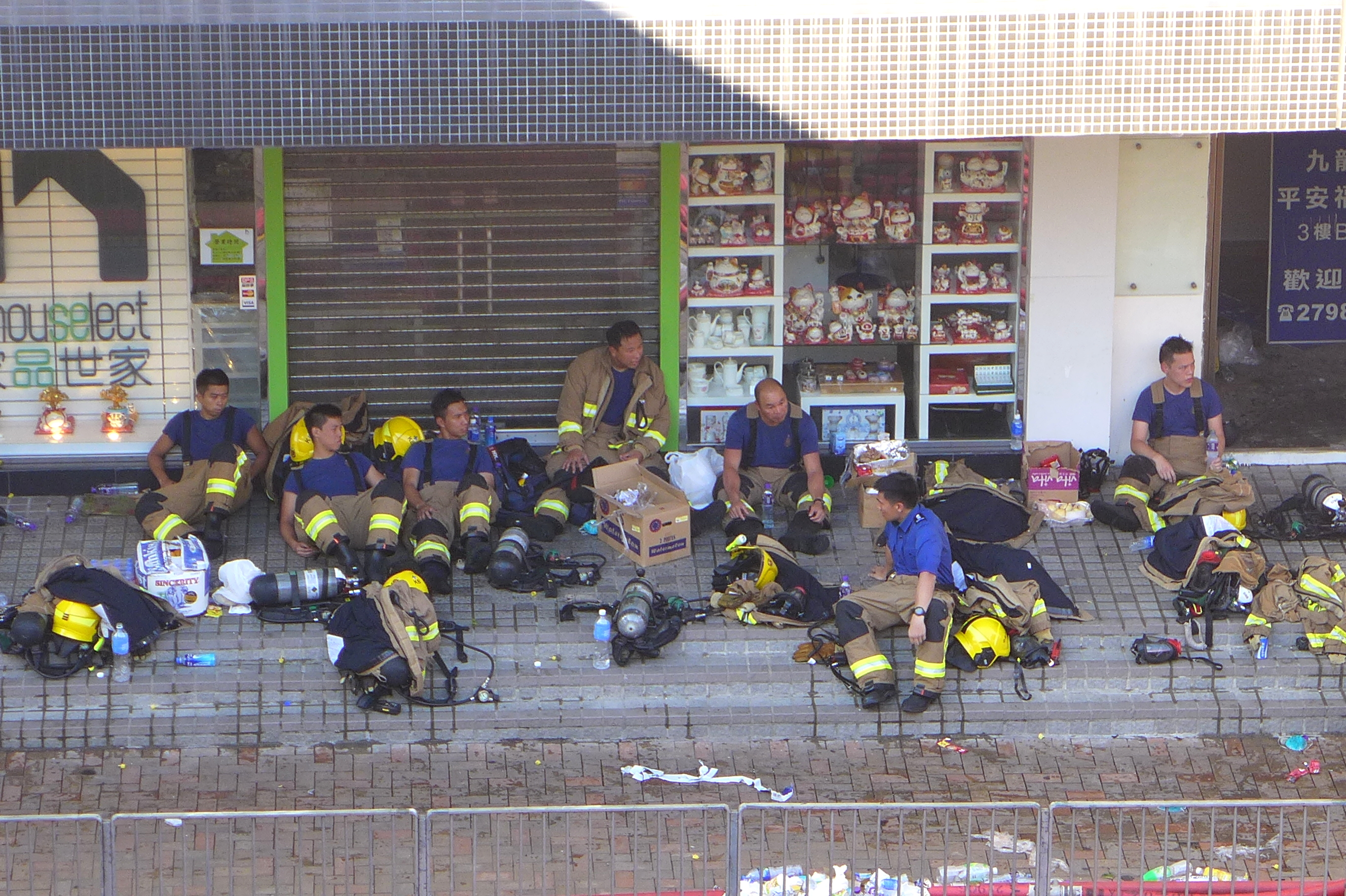 Ngau Tau Kok Fire Firefighters take a break